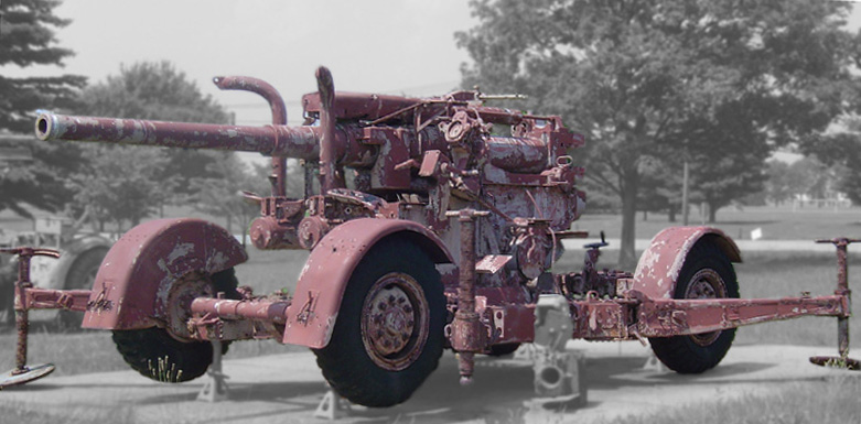 3,7 inch Anti-Aircraft Gun on display at the US Army Ordnance Museum in Aberdeen. The picture taken July 3, 2006.